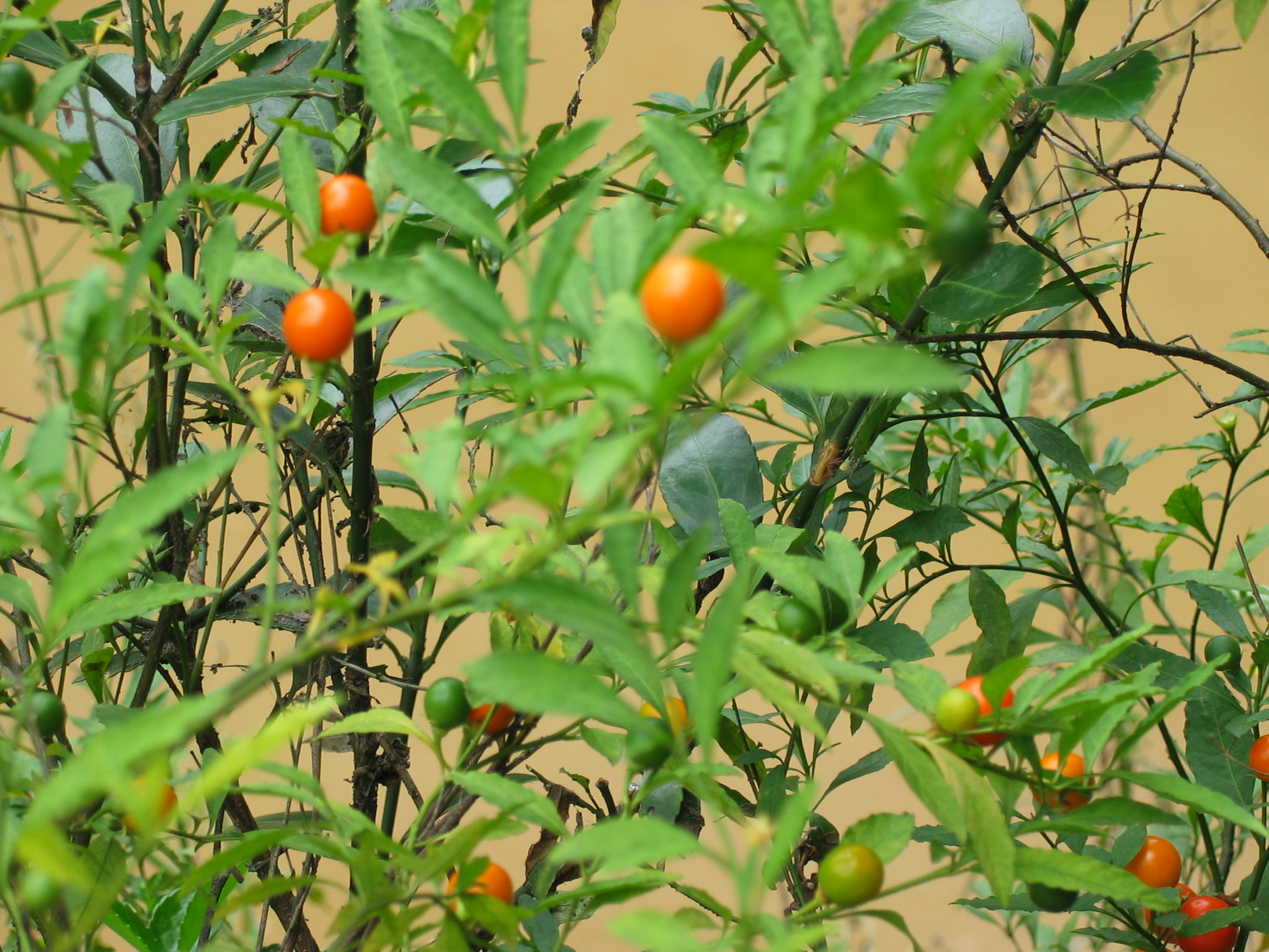 Vegetation of Luzhou